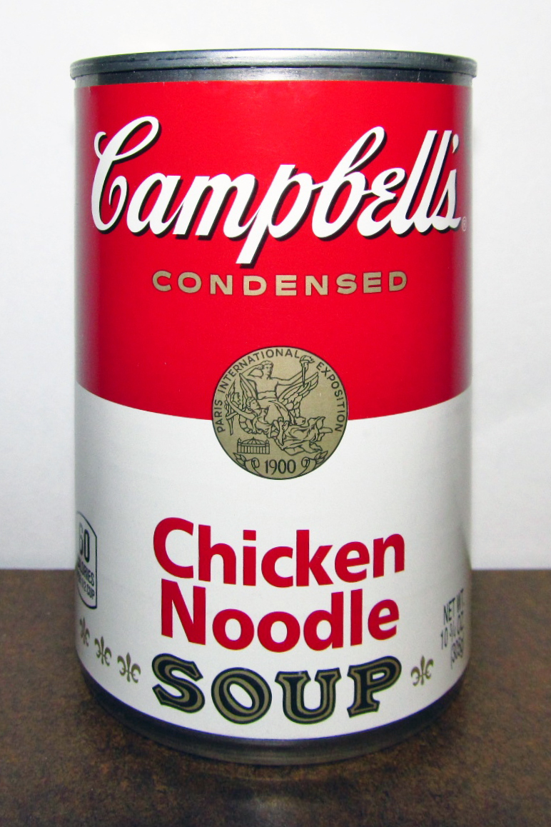 March 13th is National Chicken Noodle Soup Day!